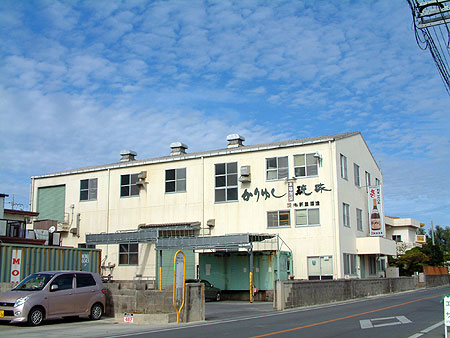 Shinzato Brewery